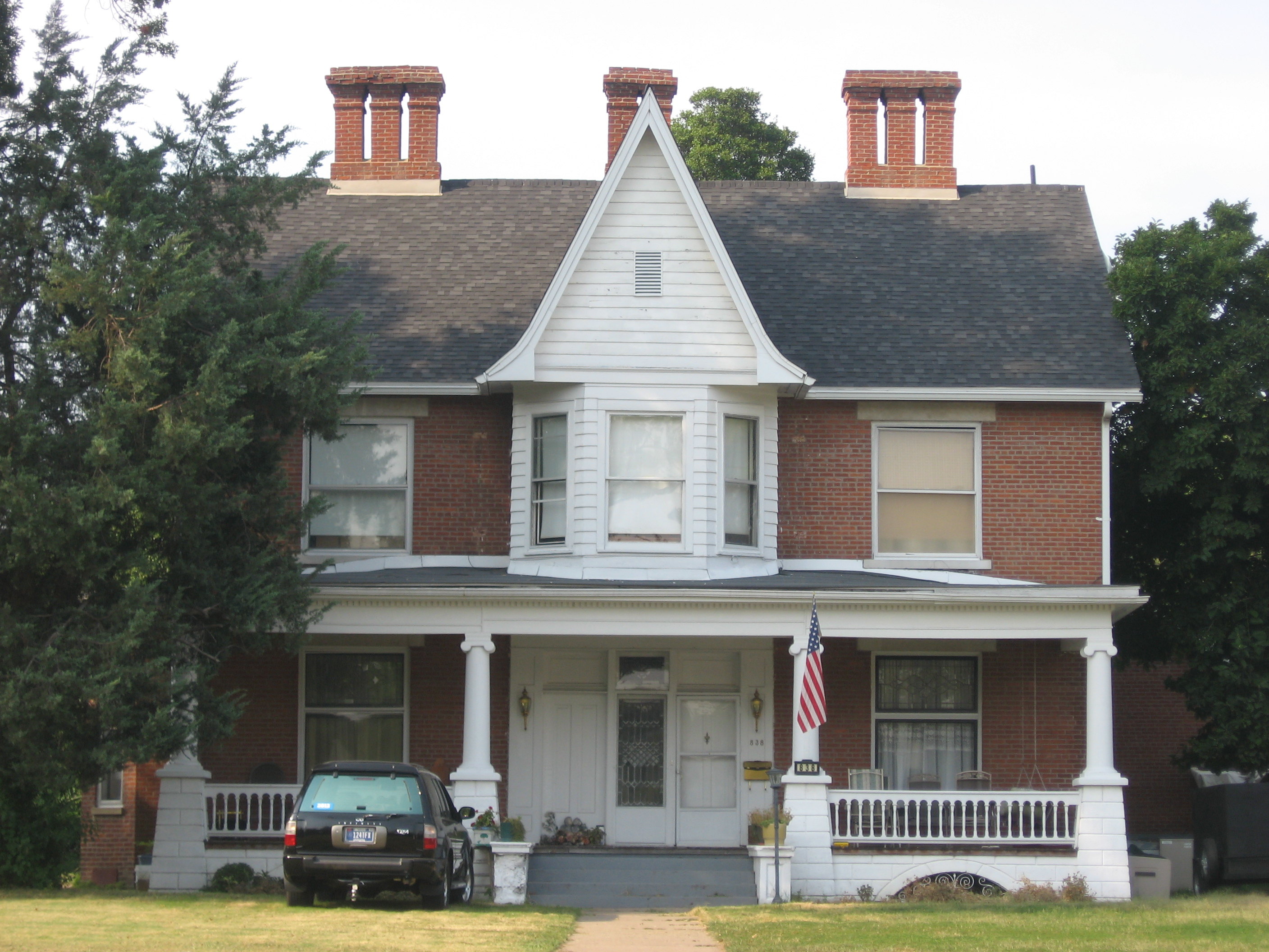 Front of the William Bedford Sr. House, located at 838 Washington Avenue in Evansville, Indiana, United States. Built in 1873, it is listed on the National Register of Historic Places, and it is part of a Register-listed historic district, the Washington Avenue Historic District.